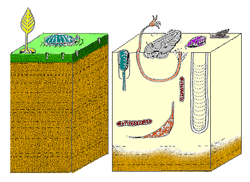 Differences between sea-floor before and after Cambrian substrate revolution (aka Agronomic revolution). Intended to be used with Template: annotated image.